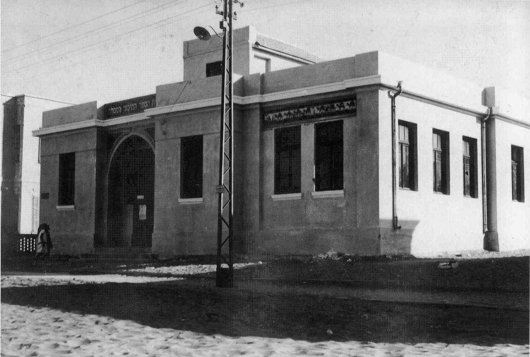 חזית בית הספר התיכוני למסחר (ברחוב גאולה 30, תל אביב), המעוטרת בעבודות קרמיקה מתוצרת בצלאל, אמצע שנות העשרים. תצלום מאת אברהם סוסקין.